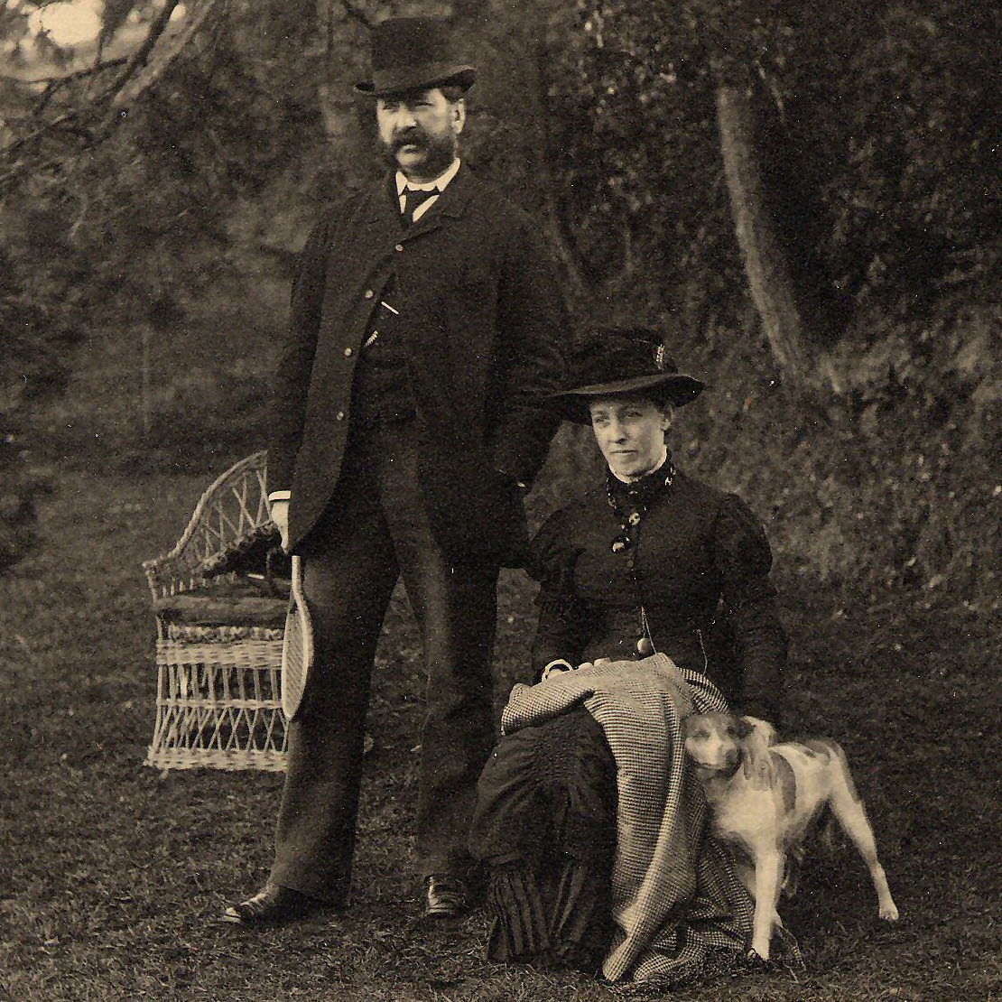 John Alexander (chief clerk to Bow Street Police Court), formally dressed in top hat but holding a racquet, with his second wife Mary Elizabeth (daughter of Vulcan Iron Works owner Robinson Thwaites) seated with dog in a garden, probably High Bank, Arnside, Lancashire.